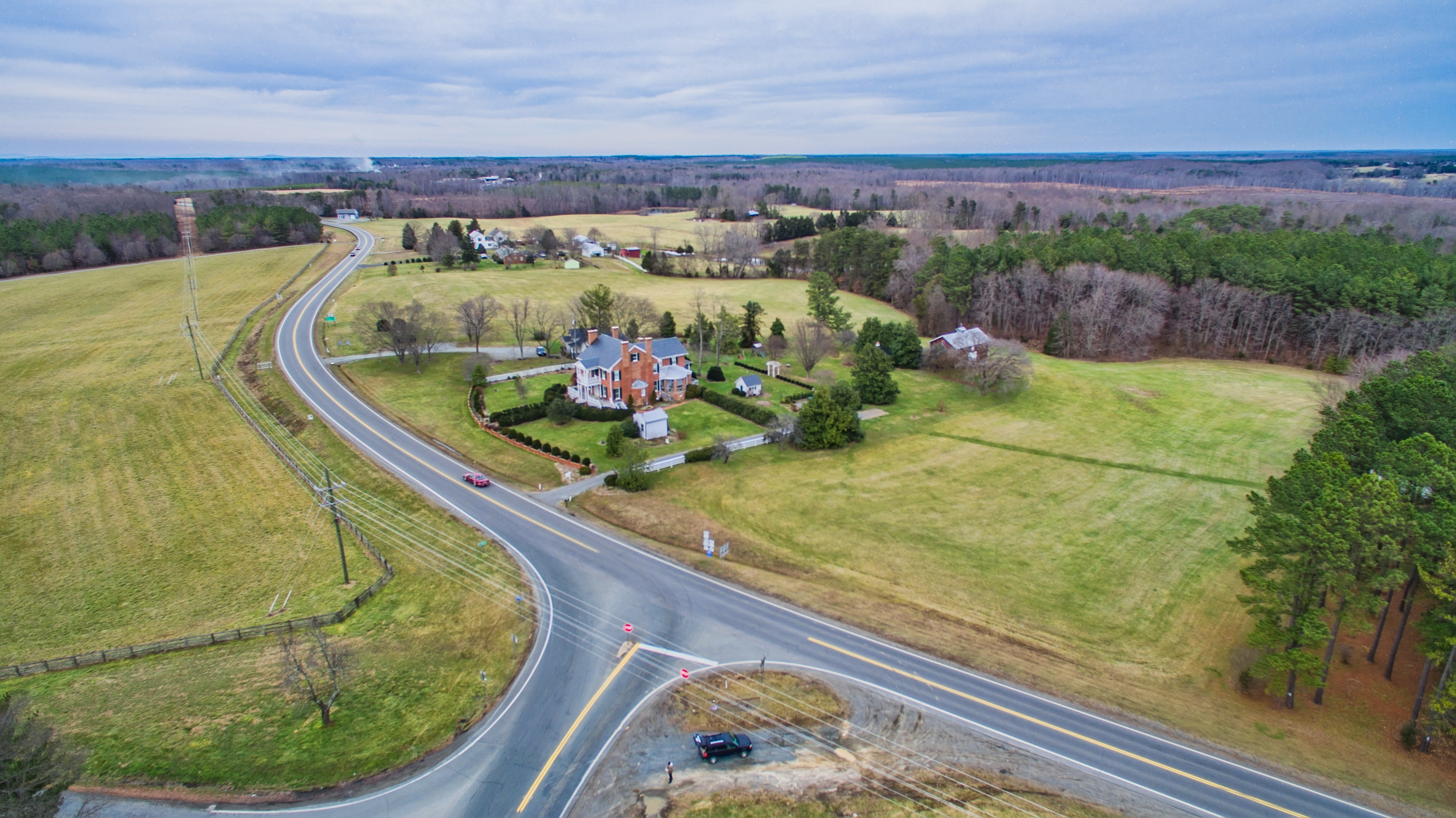 Aerial image of Cuckoo, Virginia.